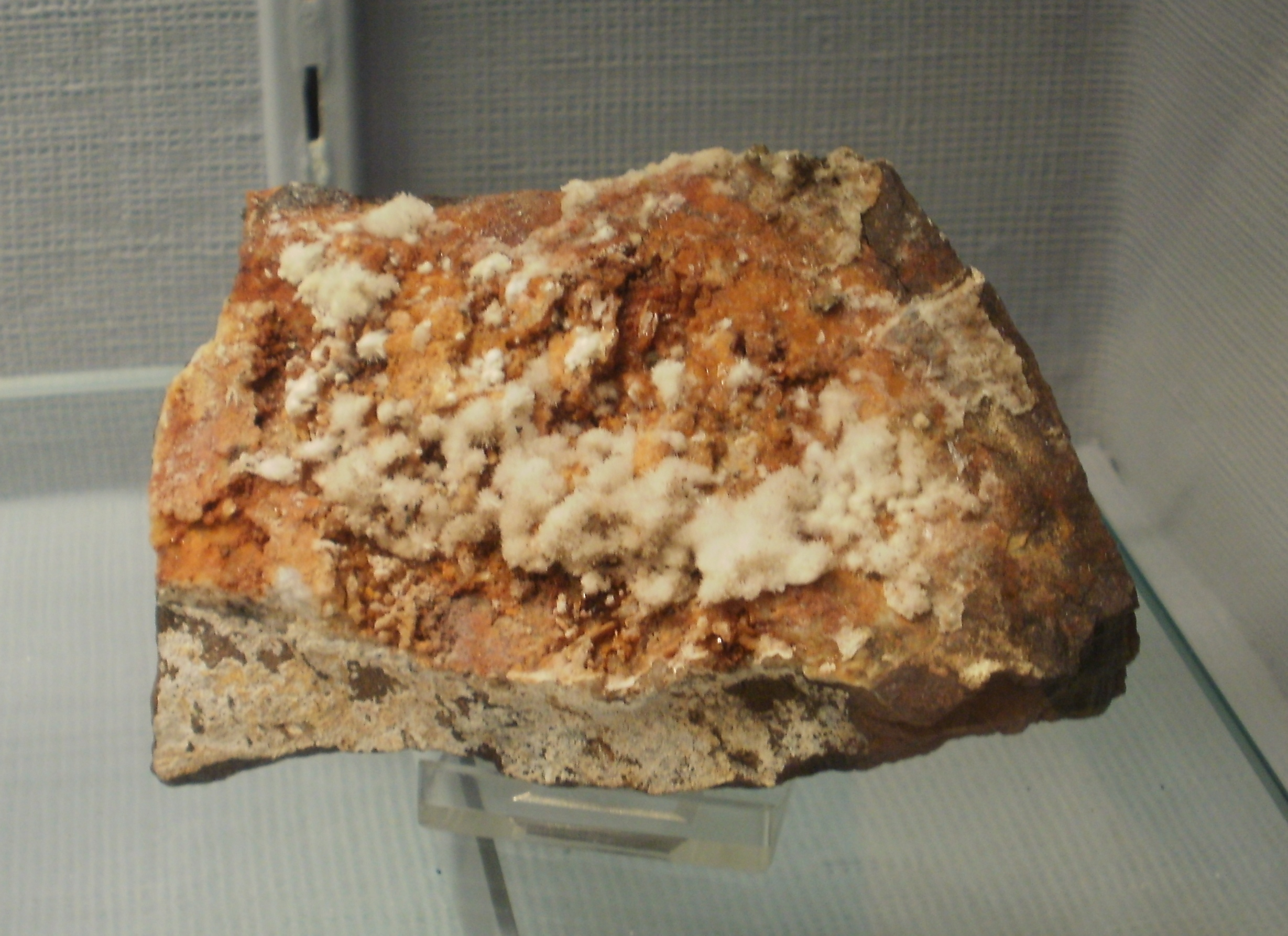 Rapidcreekite from Rapid Creek, Yukon. Held in the A. E. Seaman Mineral Museum.